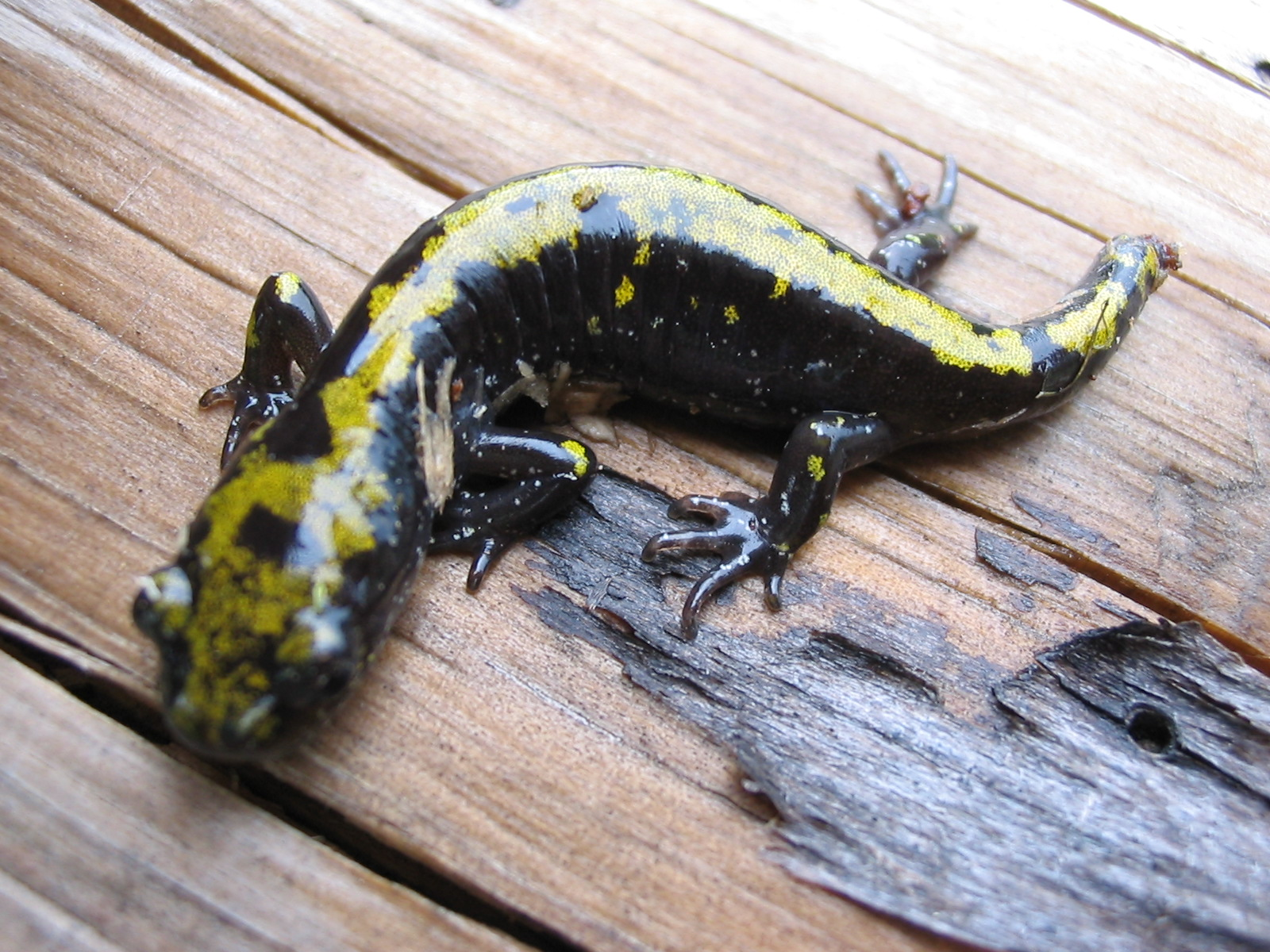 This long-toed salamander (Ambystoma macrodactylum) was found under a log. Its tail was severed (Autotomy) and waving while the salamander was walking quietly away.